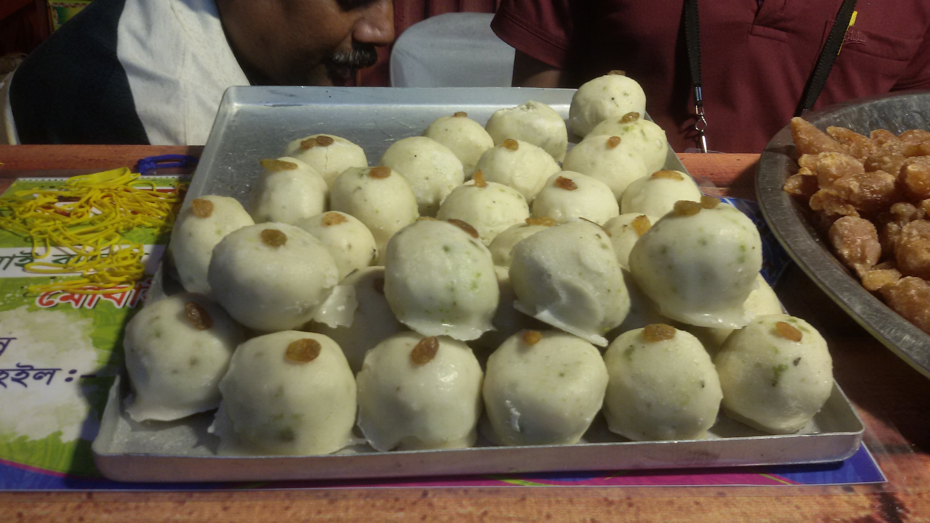 Image of manohara from Janai, prepared by Kamala Sweets.